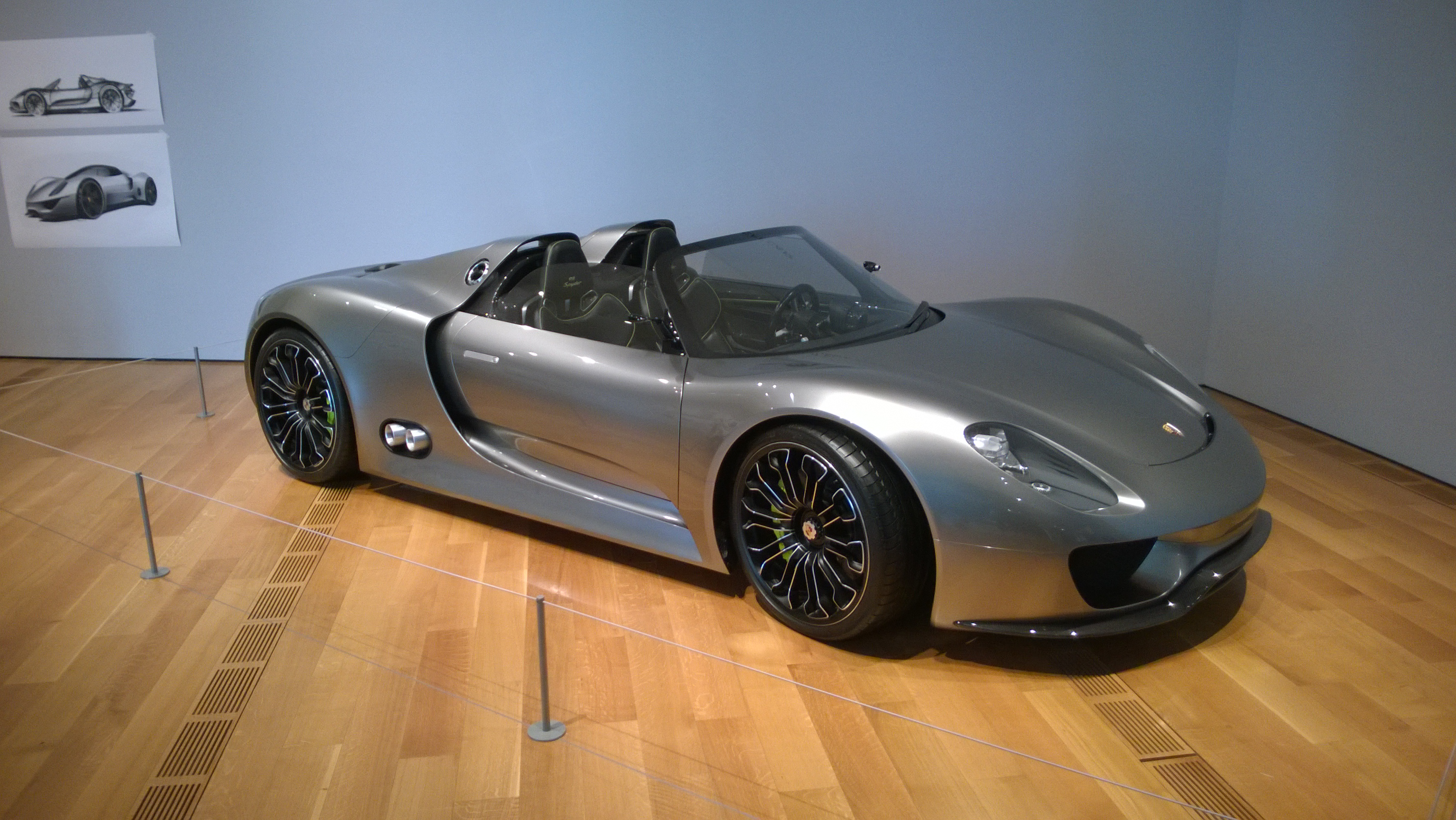 Porsche 918 prototype at the High Museum of Art's Dream Cars exhibit in Atlanta